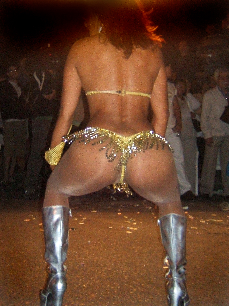 Montevideo, Uruguay Carnaval